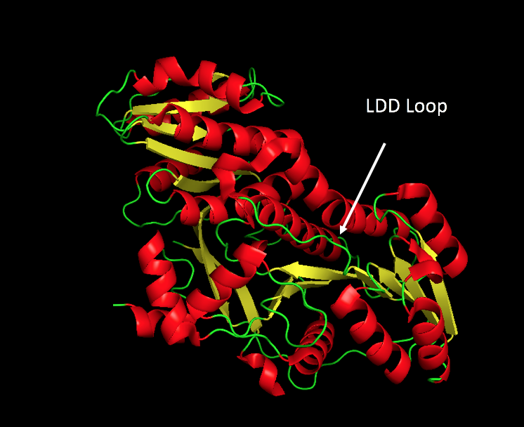 Loading Module loop highlighted that facilitates intermodular interaction.